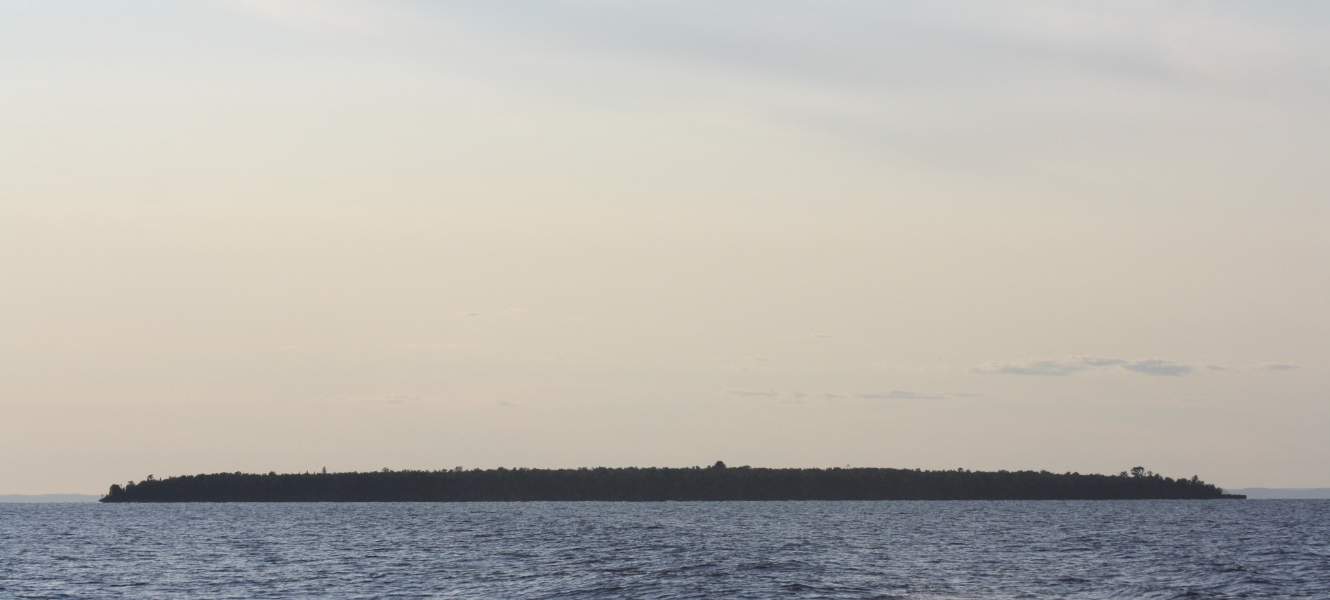 The entire York Island at sunset in the Apostle Islands National Lakeshore.